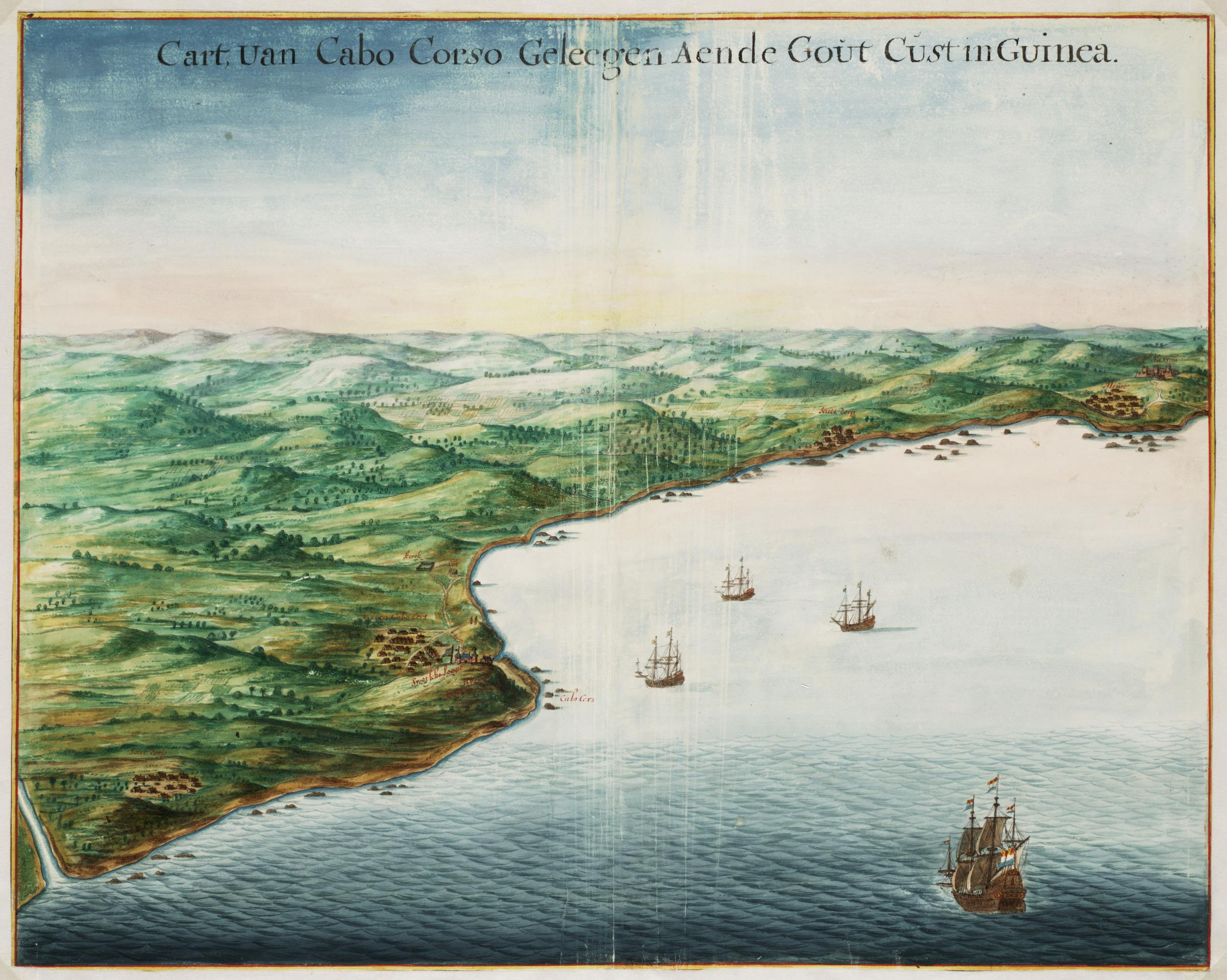 Title in the Leupe catalogue (NA): Gezicht in vogelvlucht op Cabo Corso (Cape Coast) en omgeving van de zeezijde. View of Cabo Corso on the Gold Coast. Cart Uan Cabo Corso Geleegen Aende Gout Cust in Guinea. Notes: this chart forms part of the Vingboons Atlas. The Swedish and British lodges flank the village of Corso. Several vessels lie off the coast. Cf. Österreichische Nationalbibiothek , Vienna, Van der Hem inv. nr. 36:23.